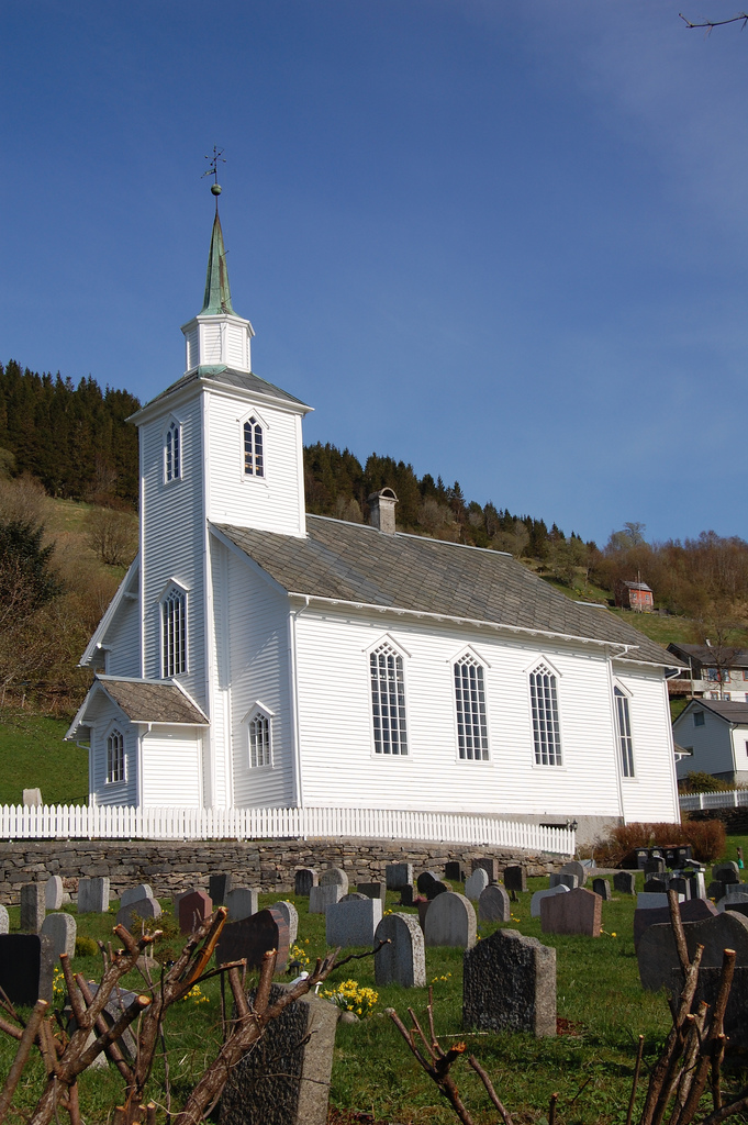 Seim church in Lindås, Hordaland, Norway